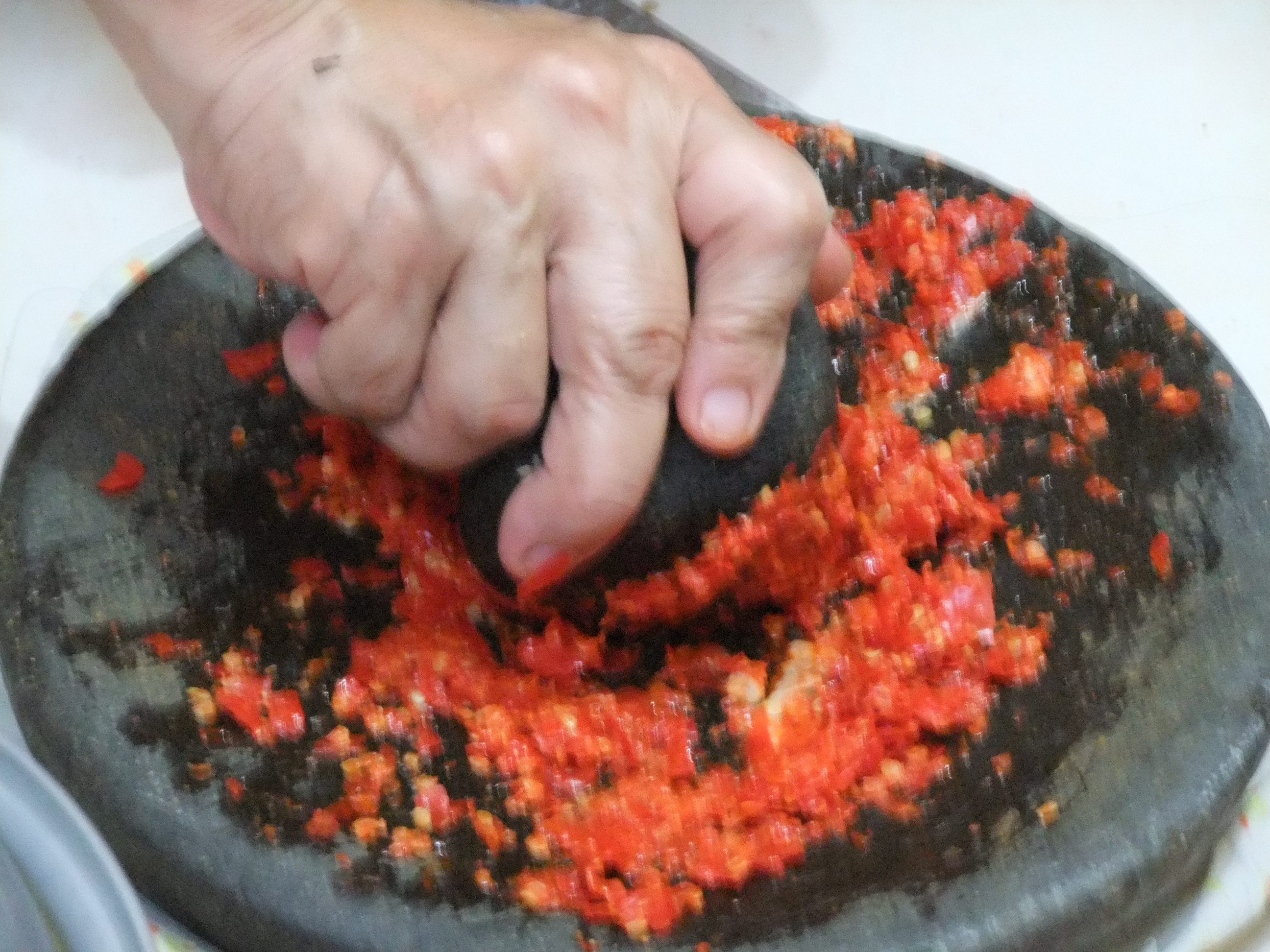 Sambal